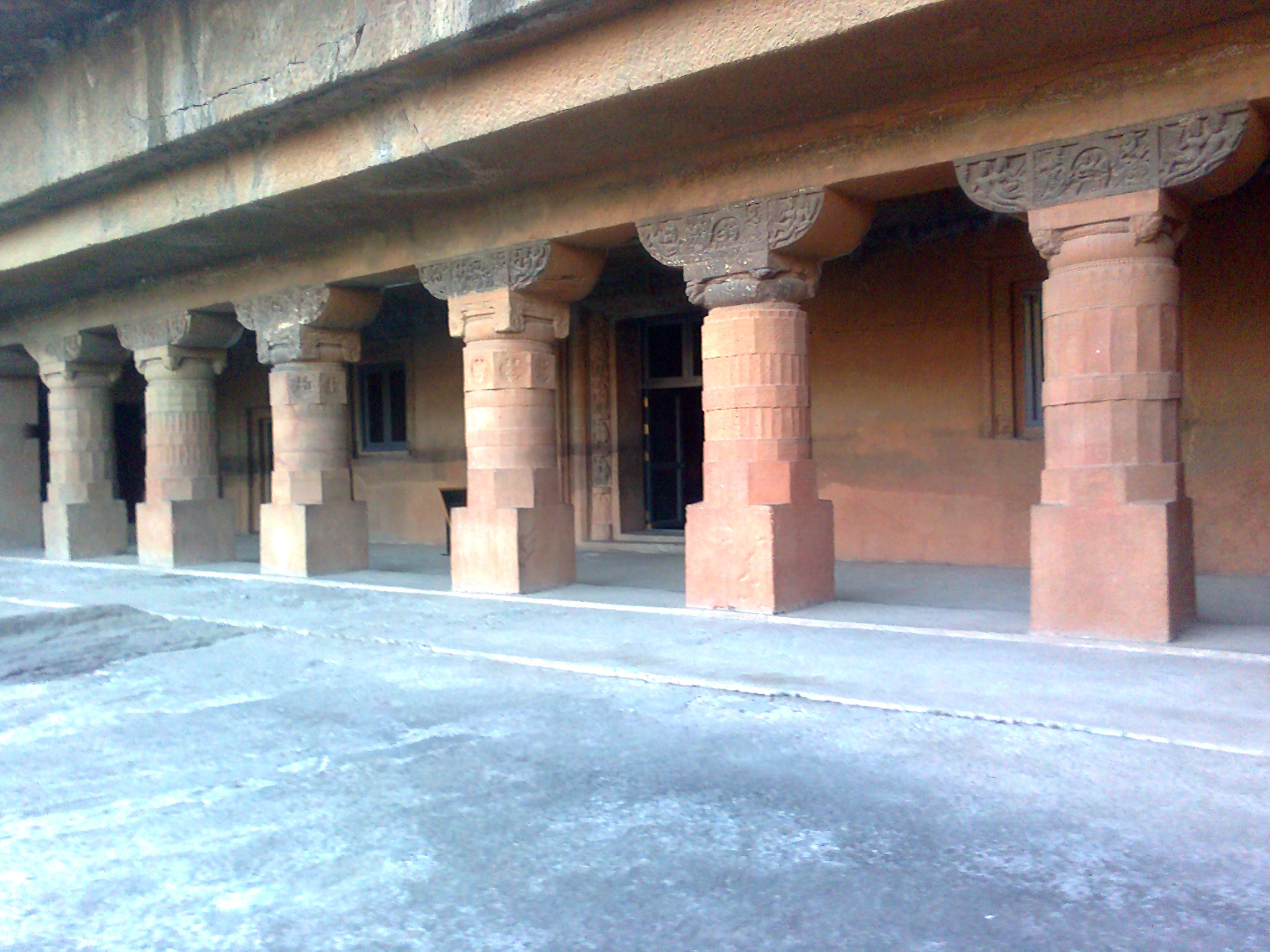 Ajanta Caves